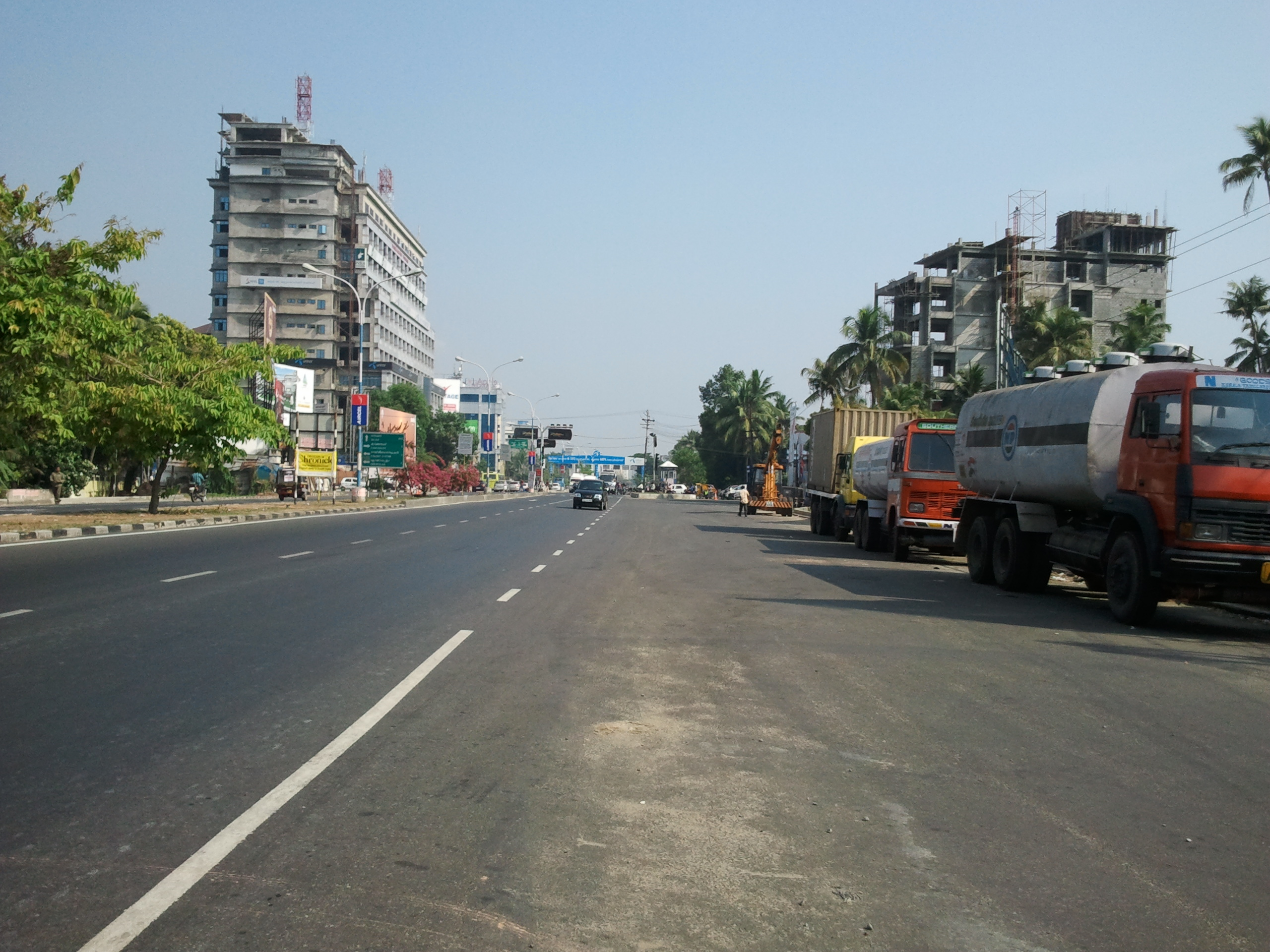 Ernakulam Palarivattom N.H. 47 bypass Junction